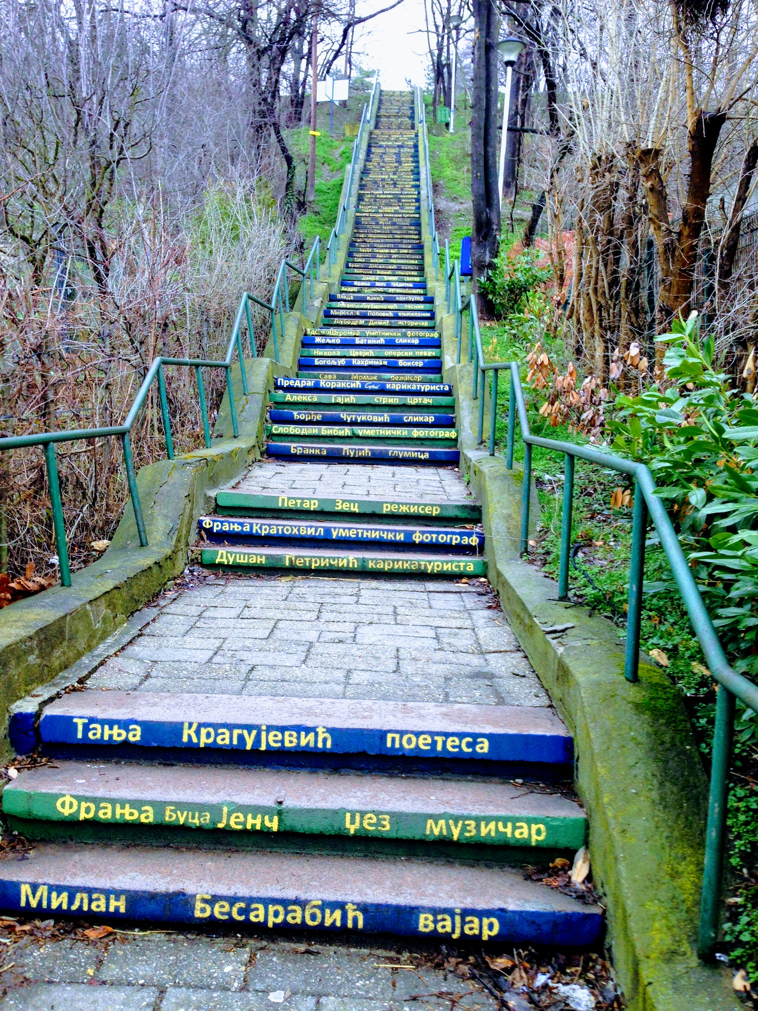 Kalvarija (Zemun)